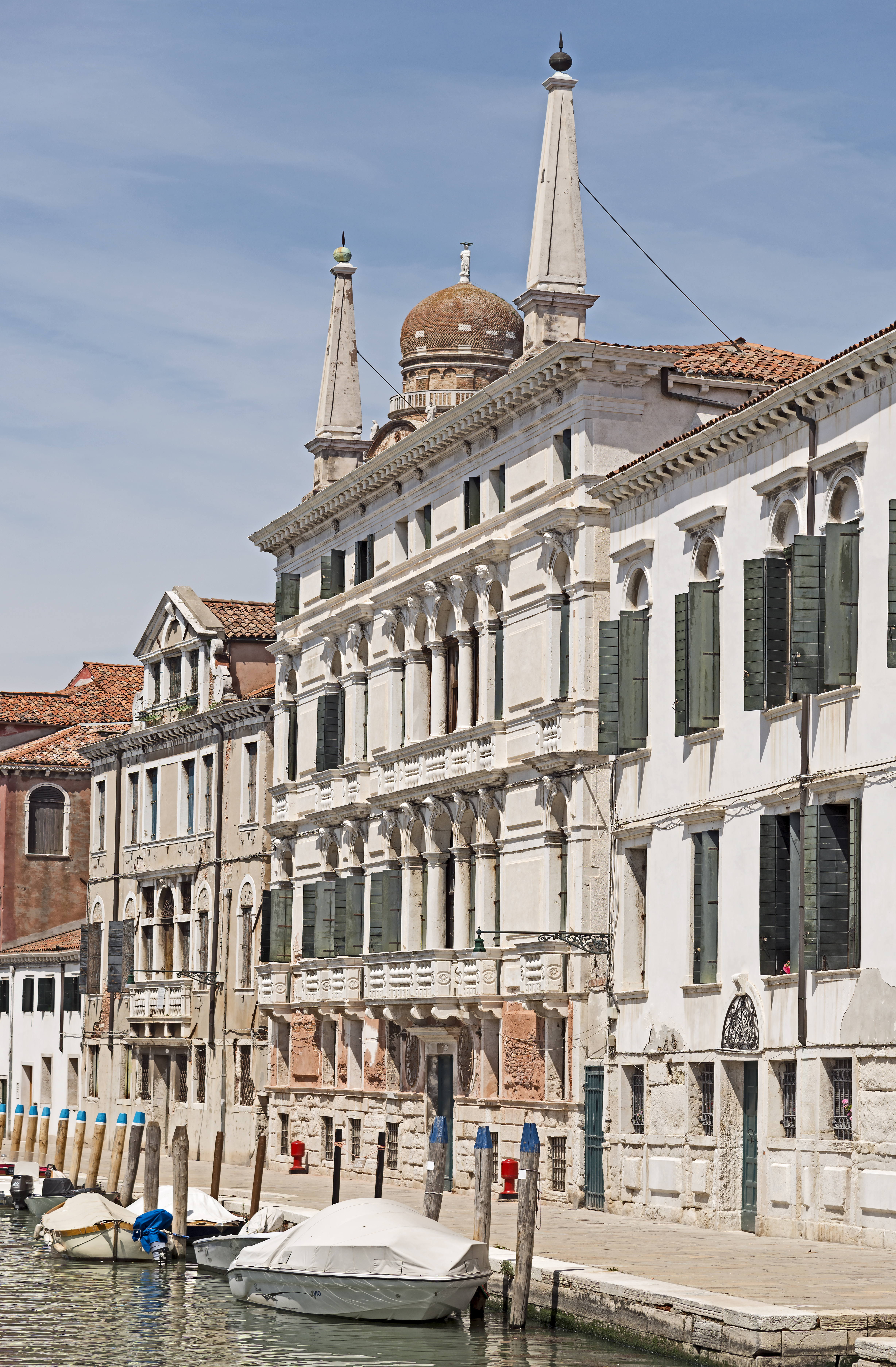 Palace Minelli-Spada in Venice - The Palace is located in the district of Cannaregio, between Madonna dell'Orto and Sacca della Misericordia. Facade on rio della Madonna dell'Orto .